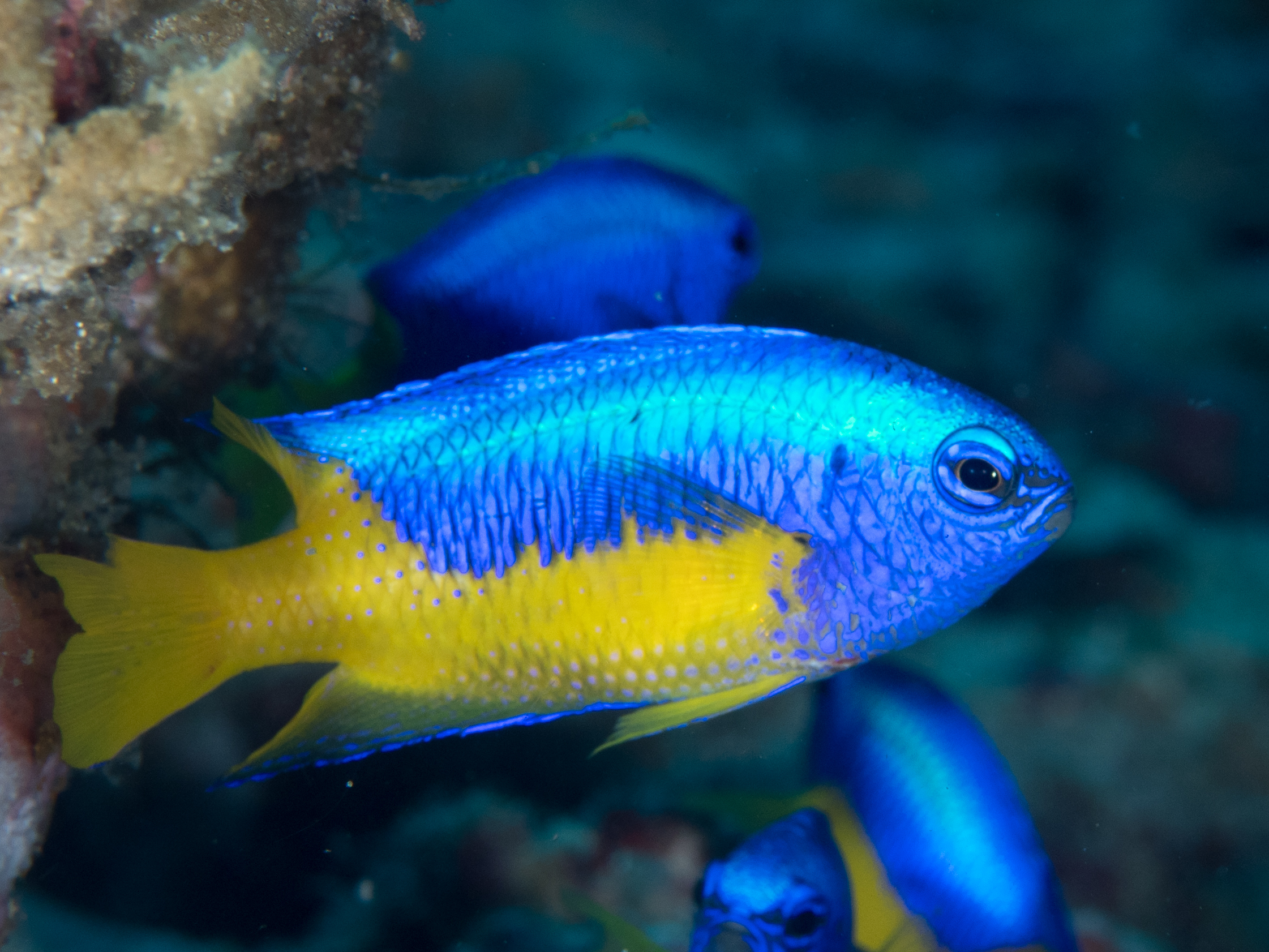 Lembeh, Indonesia - Goldbelly damsel (Pomacentrus auriventris)